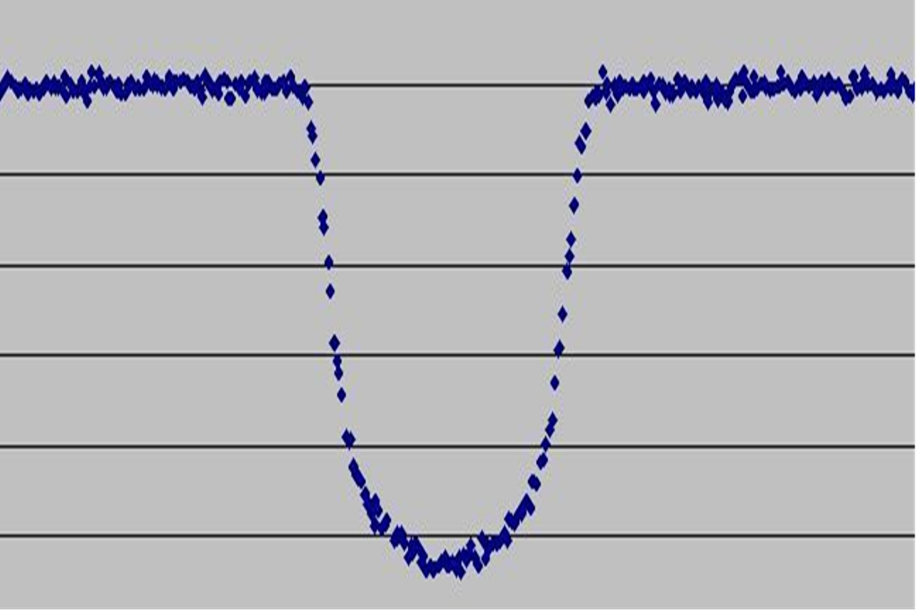 Kepler 6b photometry